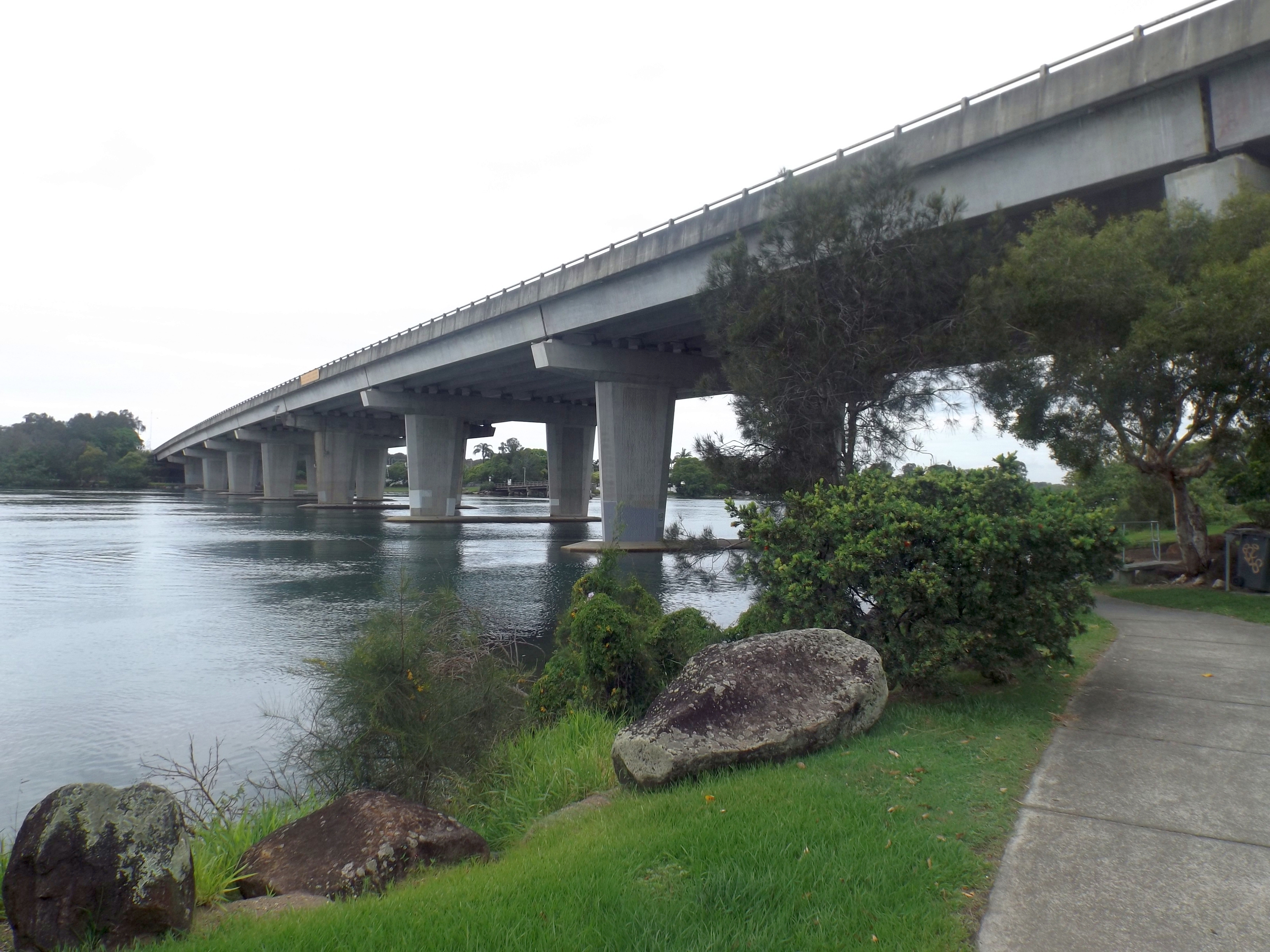 Photo of the Pacific Motorway Bridge at Banora Point. The bridge crosses the Tweed River. On the opposite bank is Fingal Head.